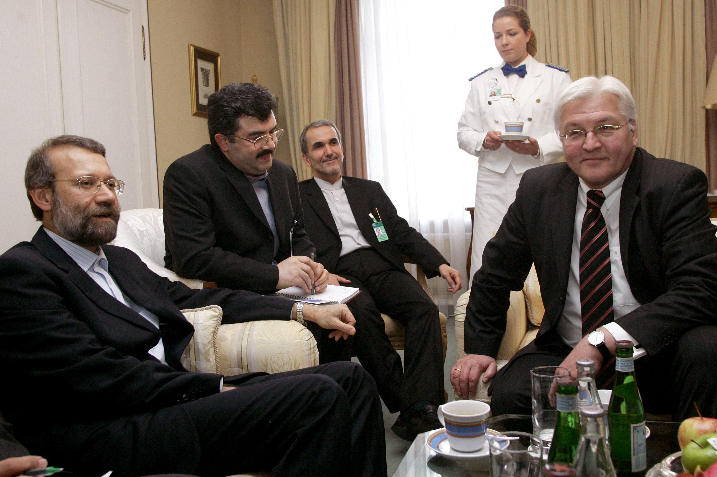 43rd Munich Security Conference 2007: Dr. Dr. Ali Larijani (le), Secretary of Supreme National Security Council, Islamic Republik of Iran, Frank-Walter Steinmeier (ri), Federal Minister for Foreign Affairs, Germany, during a bilateral Conversation.